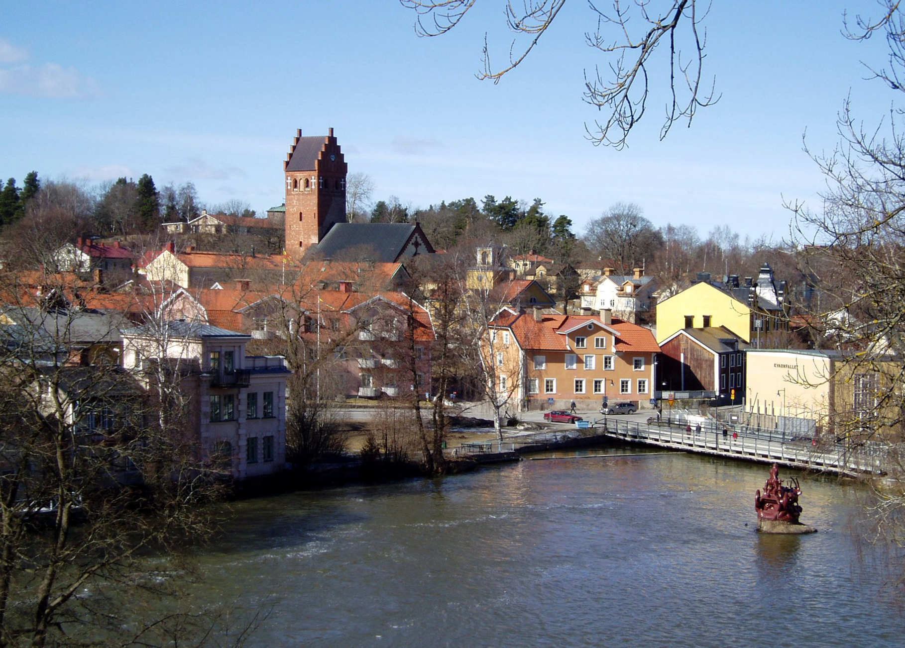 Torshälla, view over the city center